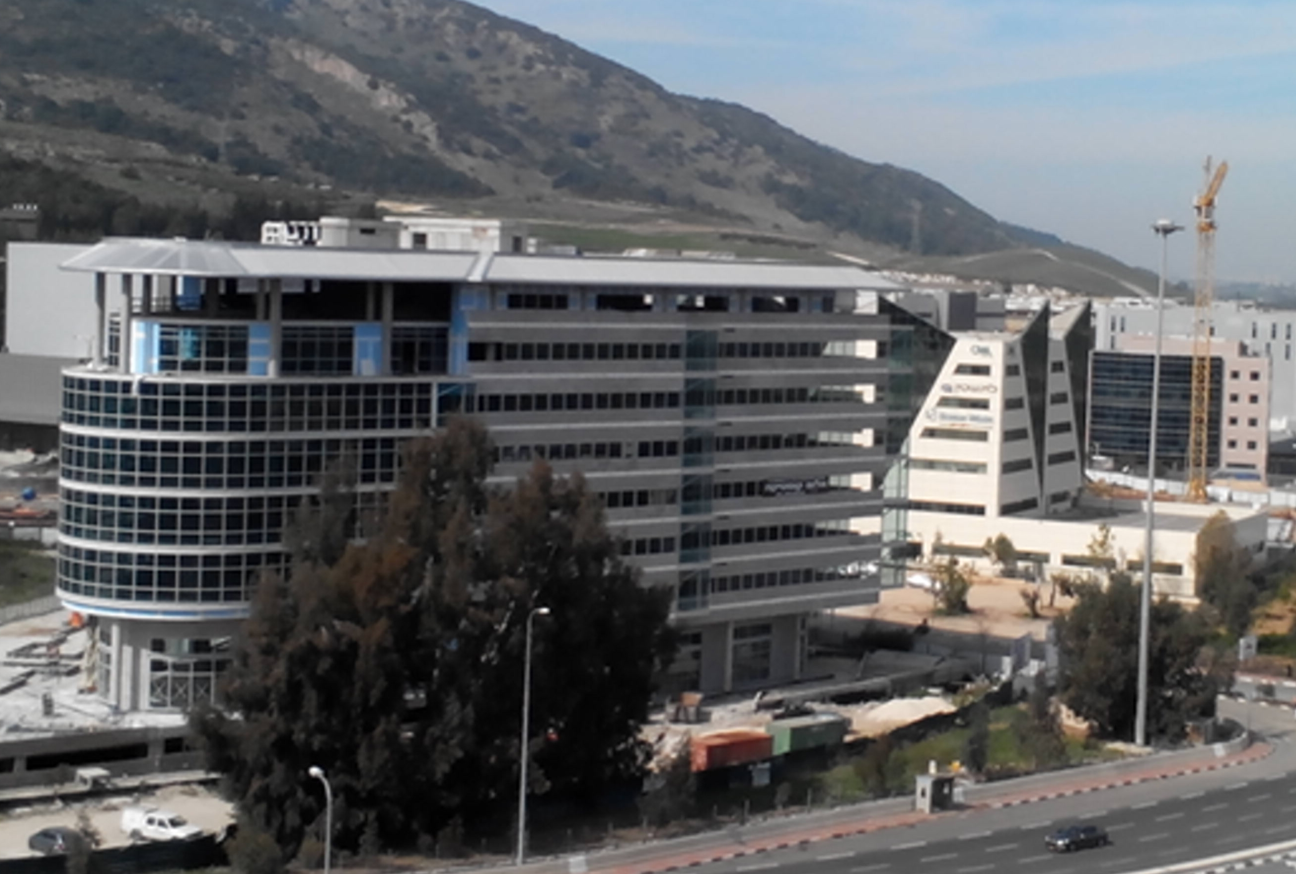 View of the high-tech park in Yokneam Illit